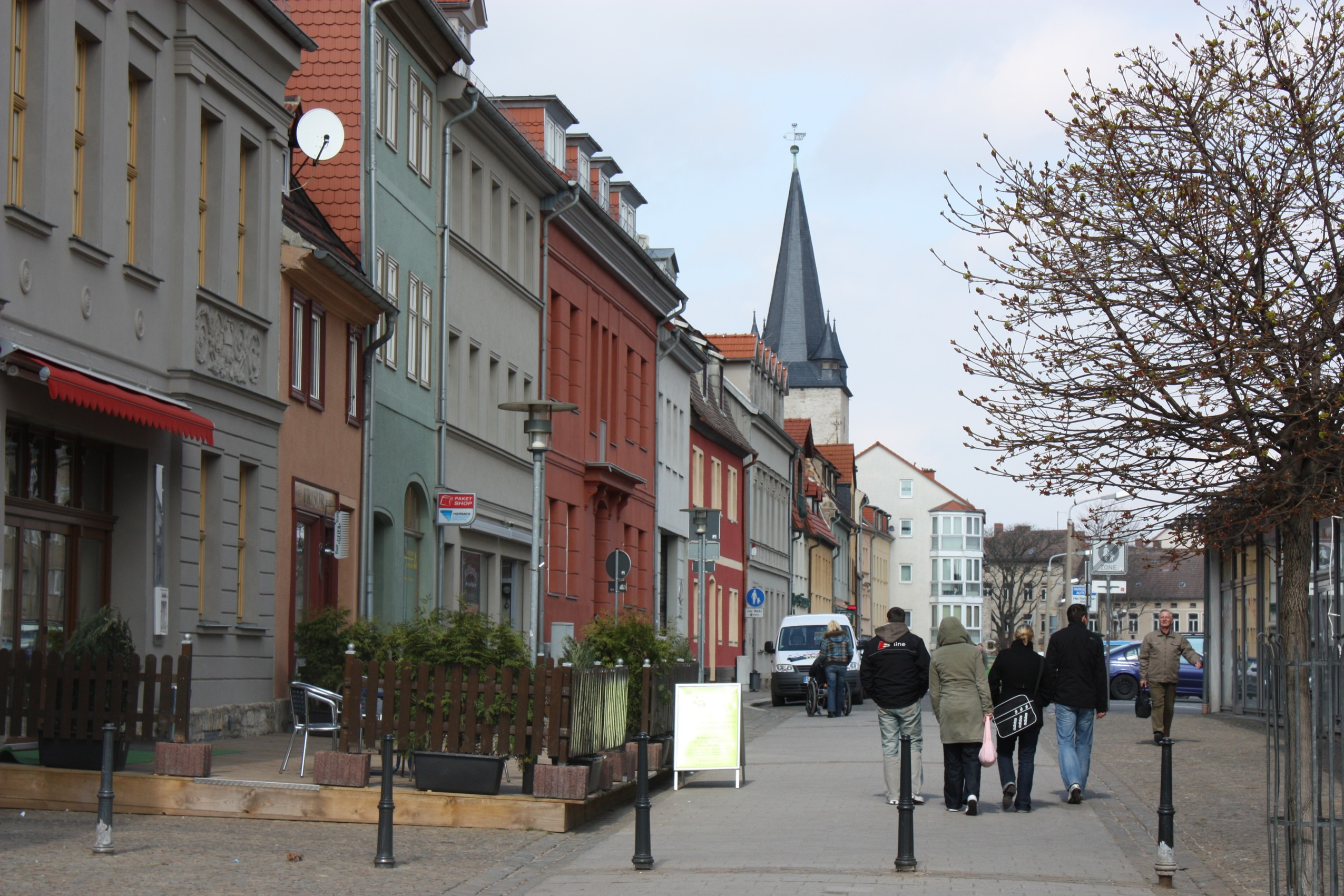 Aschersleben, the Vorderbreite, view to the Johannis tower